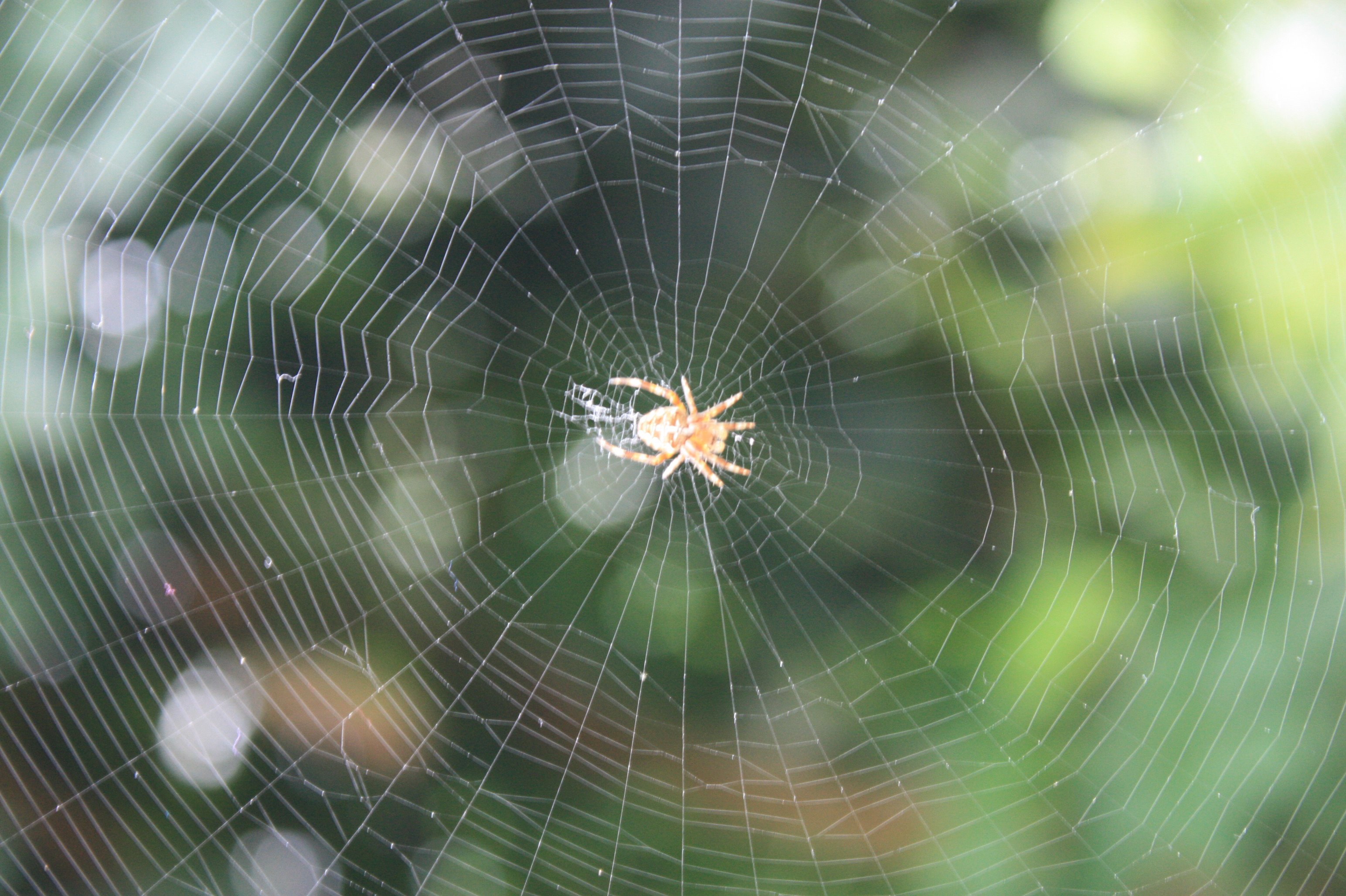 A classic circular form spider's web